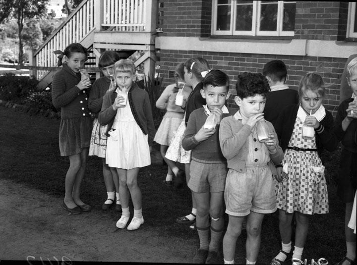 Free school milk distribution at Newmarket State School, Brisbane City.